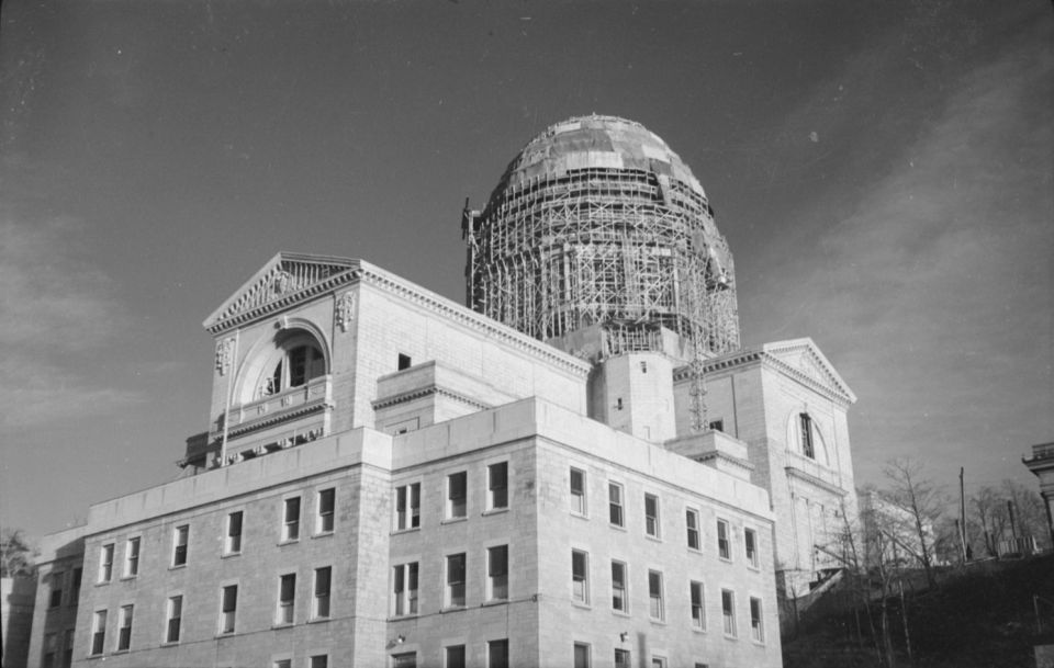 We see some of the Oratory, located Chemin Queen Marie in Montreal. We can observe the construction of the dome structure.